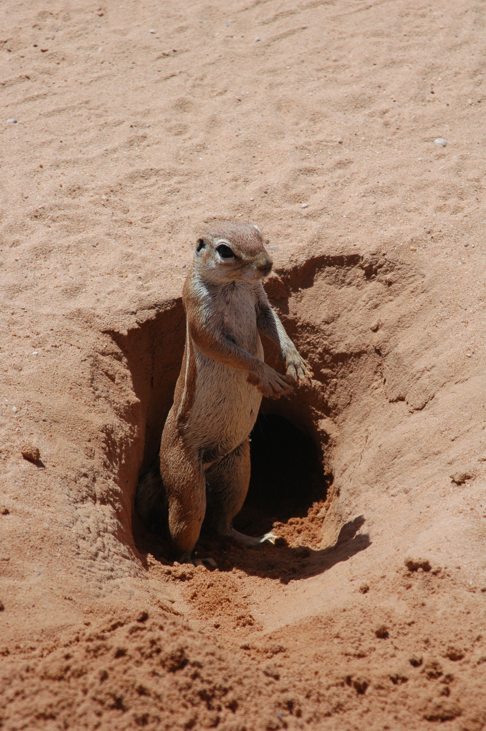 Erdhörnchen Xerus inauris (South African ground squirrel)